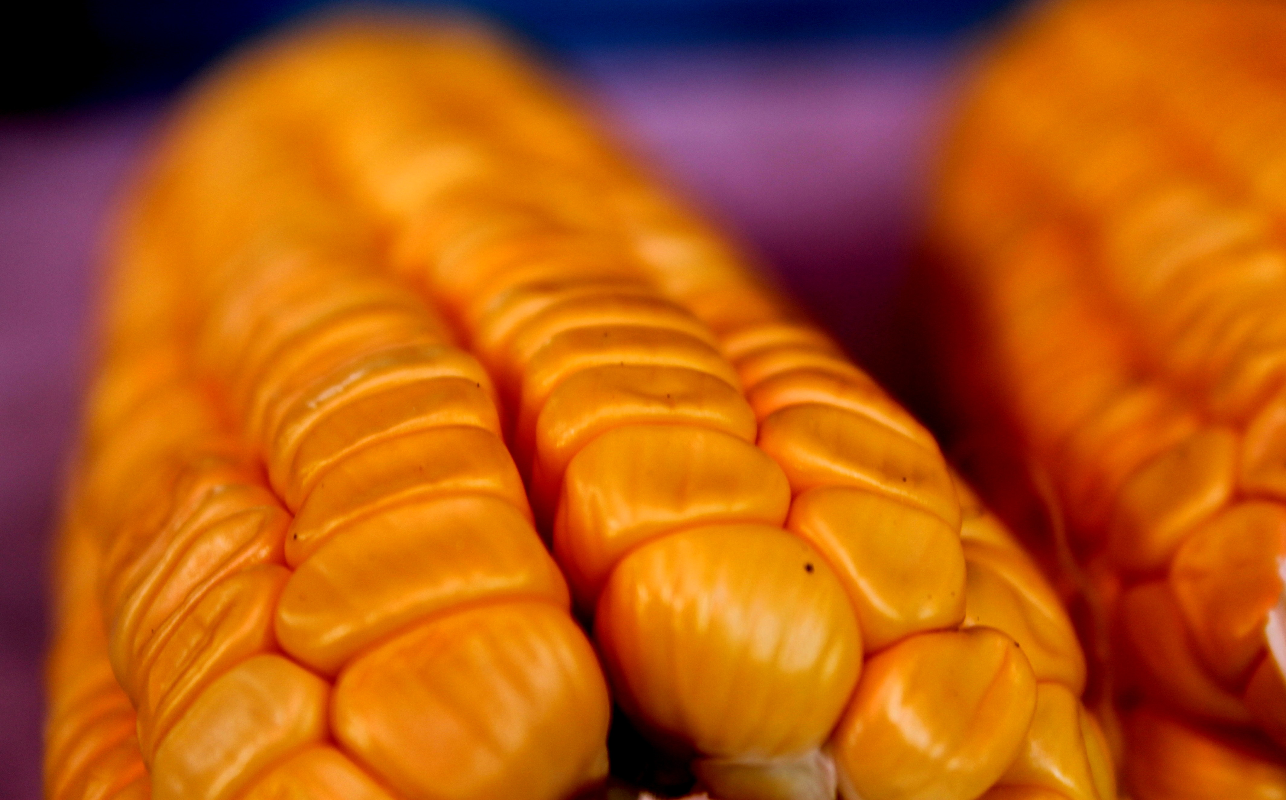 Corn1